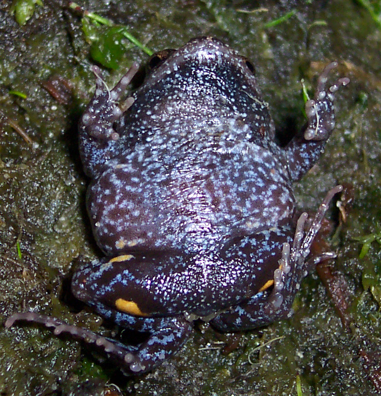 Ventral surface of Tyler's Toadlet, (Uperoleia tyleri), showing full pigmentation and yellow leg patch.